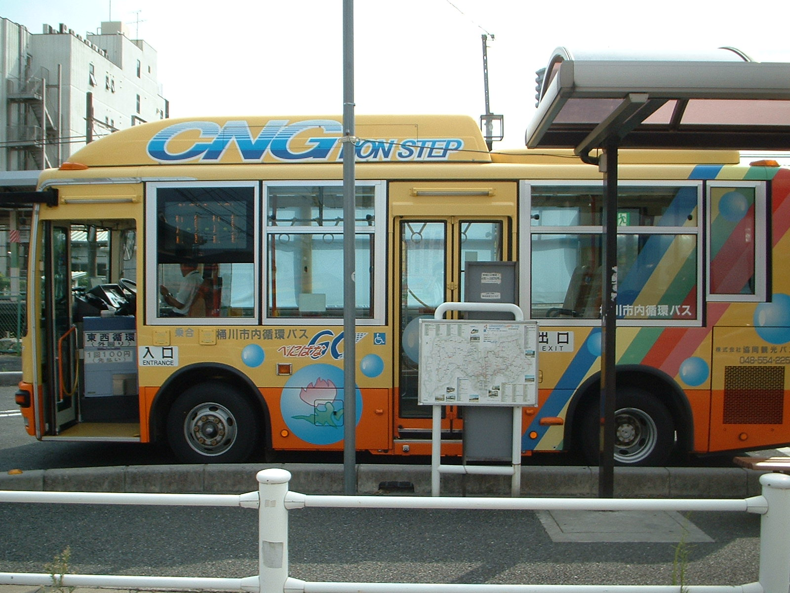 Fuso Aero Midi MJ for Okegawa City community bus Benibana Go eastern- and western circle line